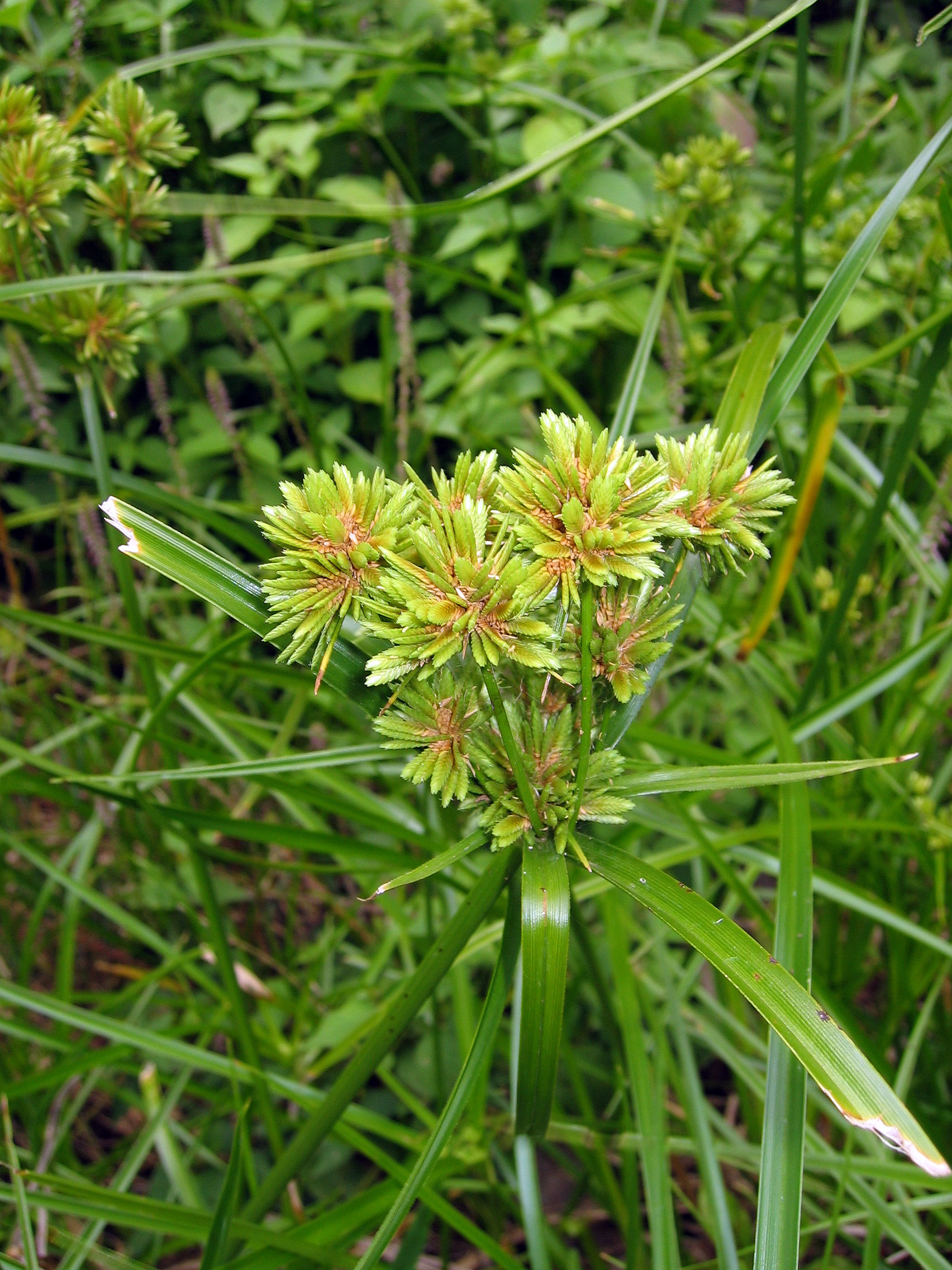 Cyperus eragrostis, Roadside near Cubo de la Galga, La Palma, Spain